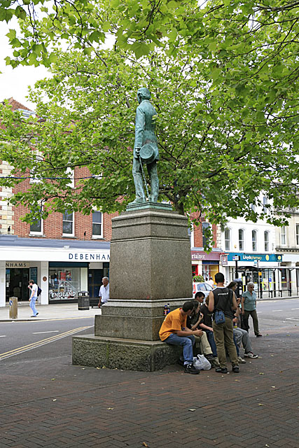 Statue of Henry Fawcett, Market Place, Salisbury. The shops in the background are in Blue Boar Row which is the northern edge of the Market Place. Fawcett was born in Salisbury in 1833 and died in 1884. He became a professor at Cambridge University, a Liberal MP and a prominent campaigner for women's suffrage. Hence the modern day Fawcett Society. (I took his back view because he has a tree up his nose.)